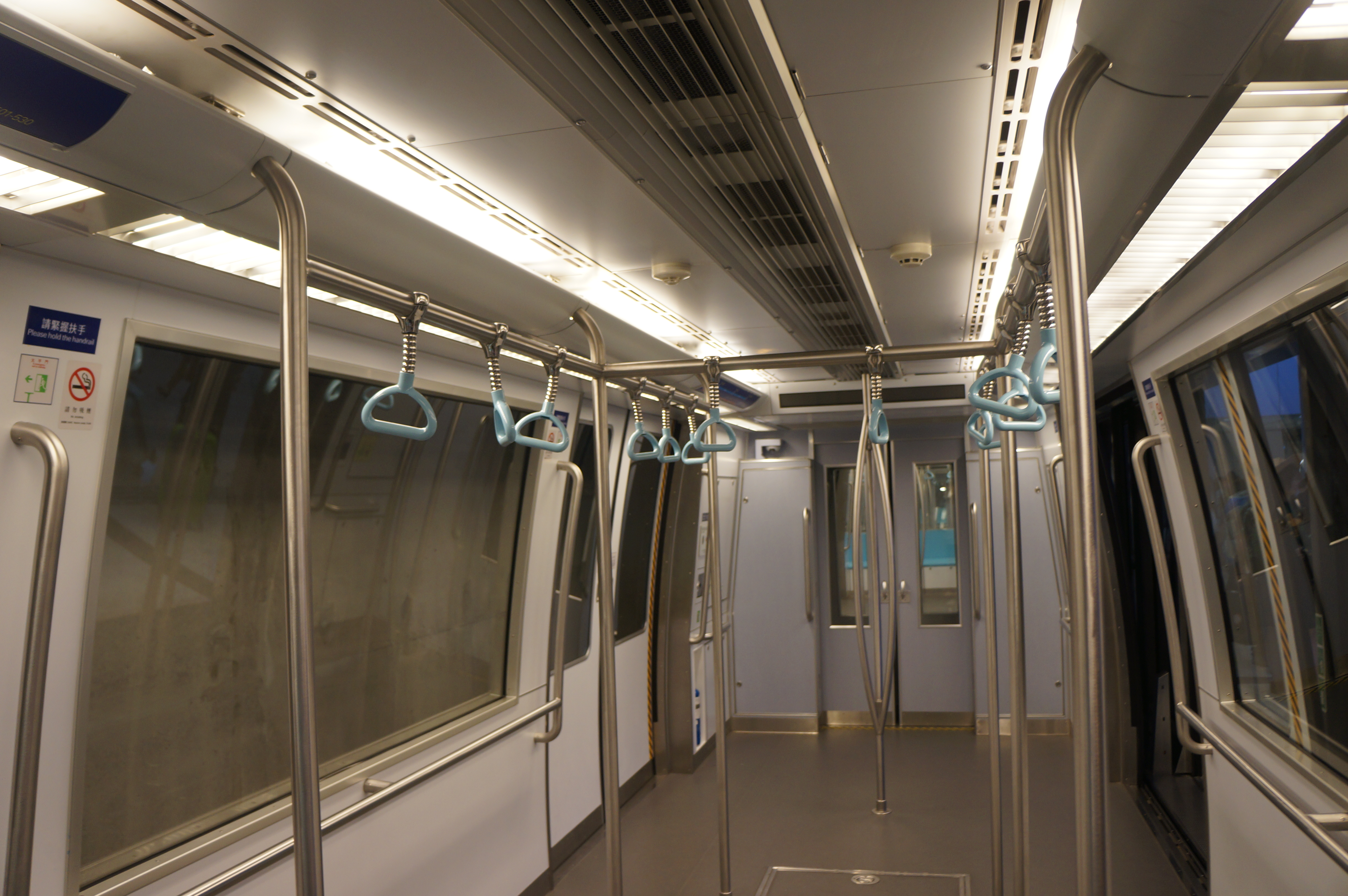 201610 Interior of HKG-APM Rolling Stock